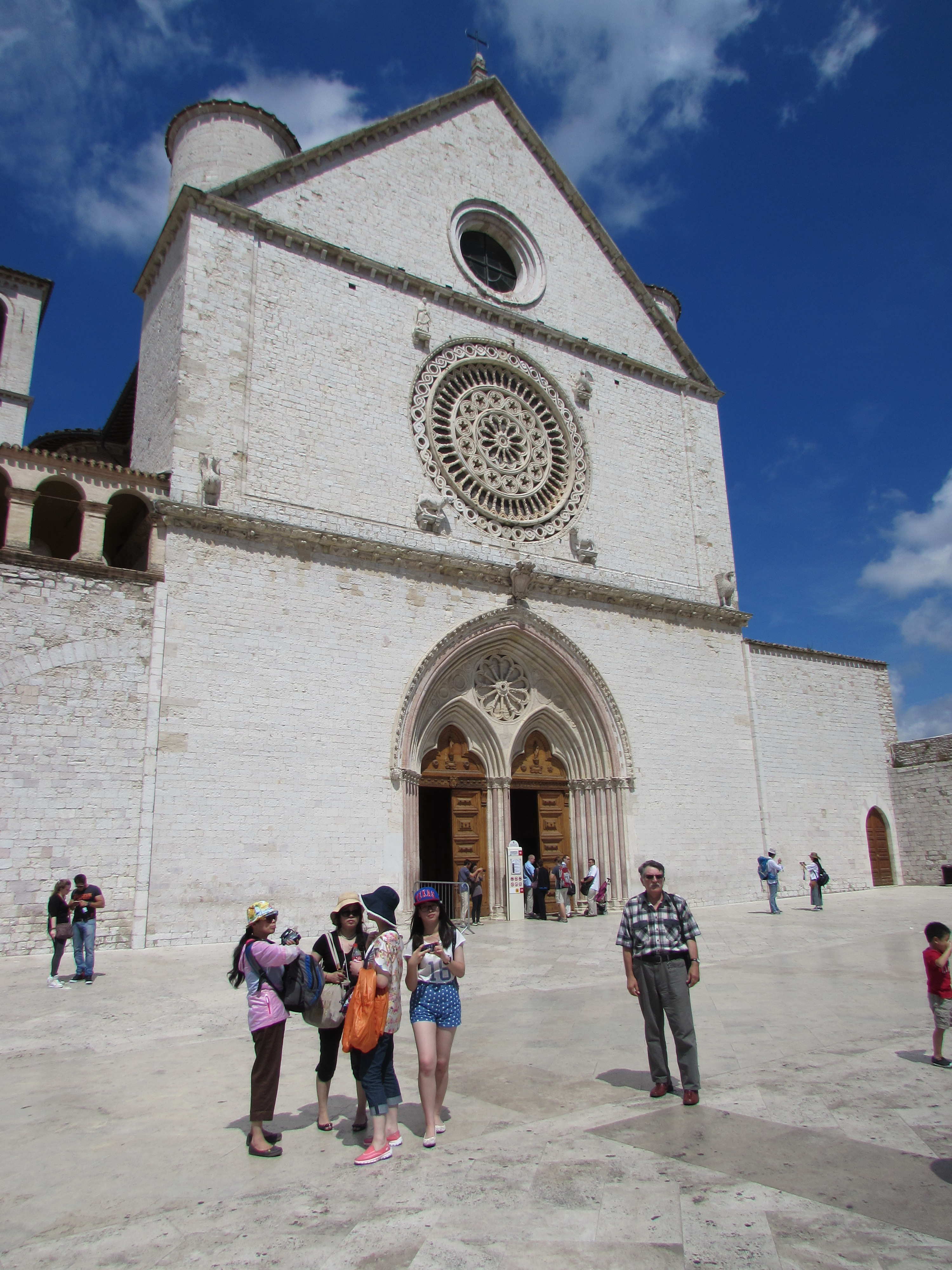 Basilica di San Francesco (Assisi)